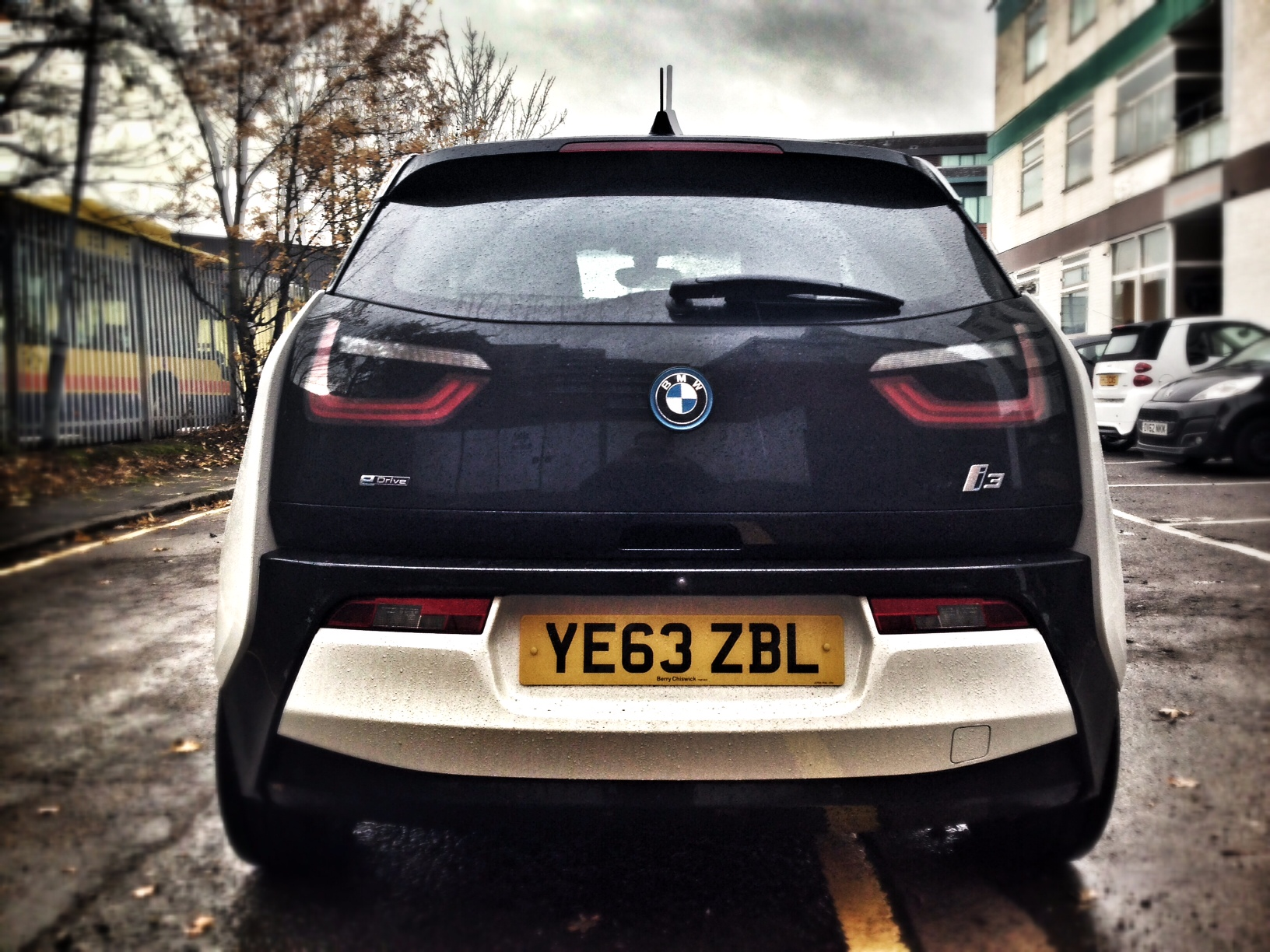 BMW i3 rear straight view